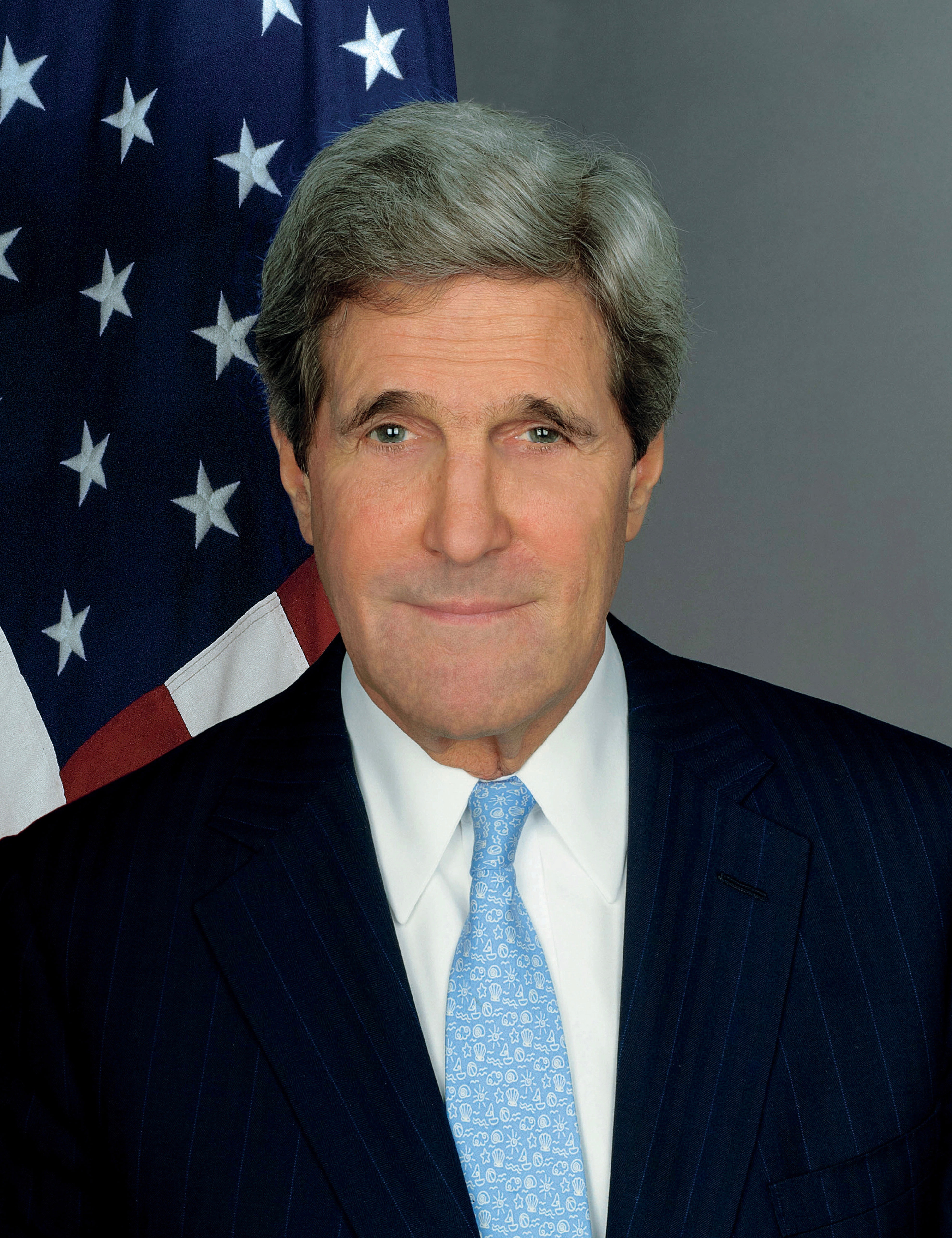 Official portrait of Secretary of State John Kerry.